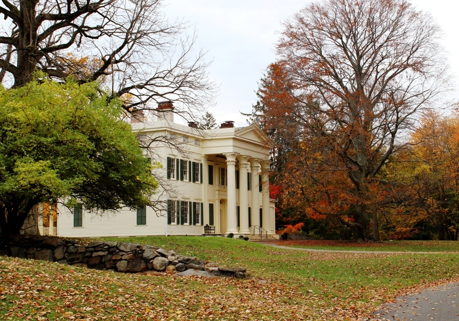 The 23 acre Jay Estate in Rye is the childhood home of American Founding Father, John Jay (1745 – 1829). As a young man, Jay’s qualities of leadership and patriotism were nurtured on this piece of land; he would grow up to become one of our nation’s greatest diplomats and jurists, an anti-slavery advocate, spymaster, a Governor of New York, co-author of the Federalist papers, and with John Adams and Benjamin Franklin, a negotiator of the Treaty of Paris that ended the Revolutionary War. Later generations of Jays would become lawyers, scientists, and ambassadors; a great, great granddaughter, Mary Rutherfurd Jay would become one of America’s earliest landscape architects. Visitors to the property today will see what he saw - an unparalleled view of Long Island Sound over a 10,000 year old man-managed meadow, the oldest of its kind on record in New York State. 1.5 acres of historic sunken garden rooms bounded by stone walls are currently undergoing restoration; their design includes re-installation of a parterre planting as well as a reflecting pool and 100 foot long arbor. Buildings open to the public for tours include the 1838 Greek Revival Peter Augustus Jay House presented in various stages of historic preservation; it is the oldest National Historic Landmark in New York State with an energy efficient geo-thermal heating and cooling system. Concerts and programs in American History, Architecture, Social Justice and Environmental Stewardship for schools and the general public are offered throughout the year at the 1907 Van Norden Carriage House which acts as the Visitor Center. The site is on New York State’s Path Through History and Westchester County’s African American Heritage Trail. 210 Boston Post Road, Rye, NY